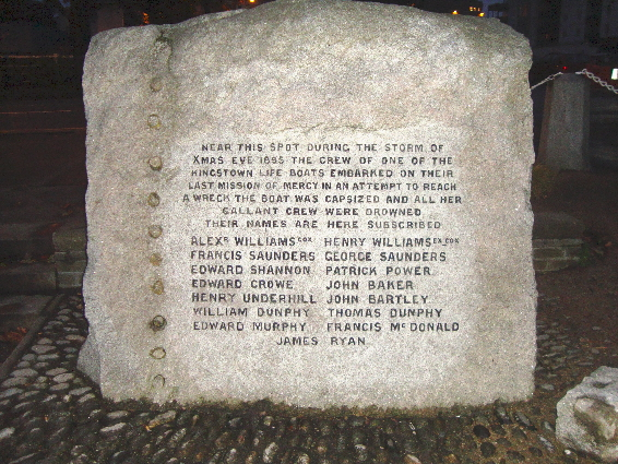 Photo taken by me of memorial to members of Kingstown Lifeboat who died at sea.